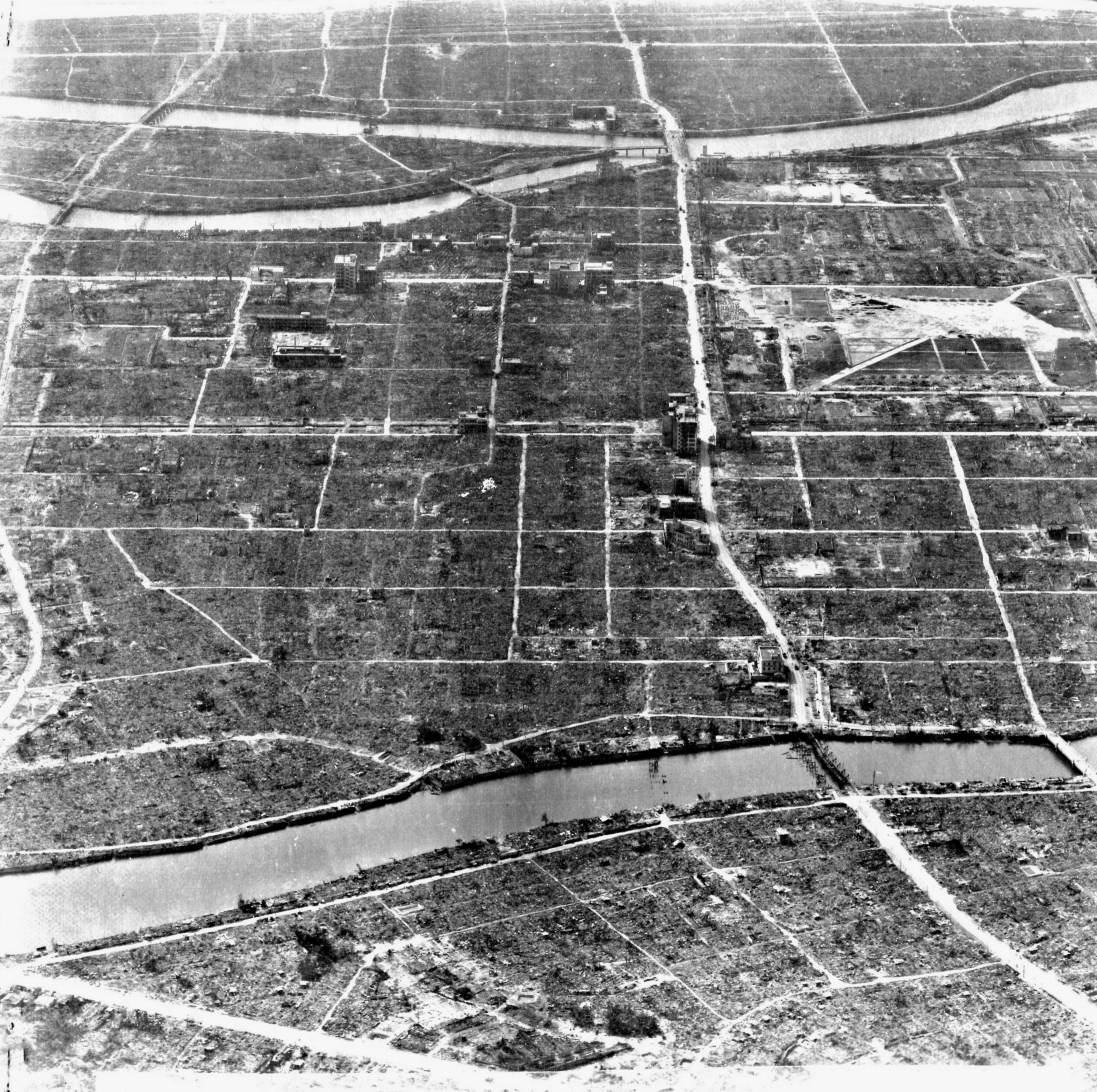 Aerial view of the destuction at Hiroshima, Japan, caused by the atomic bomb dropped on the city.